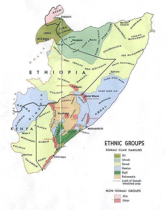 CIA map showing the clans and tribes of Somalia and neighbouring areas in 1977.